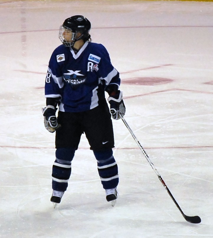 Brampton Thunder vs. Calgary Oval X-Treme; 2009-03-19